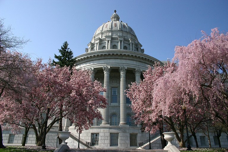 Missouri State Capitol Building with flowering cherries.